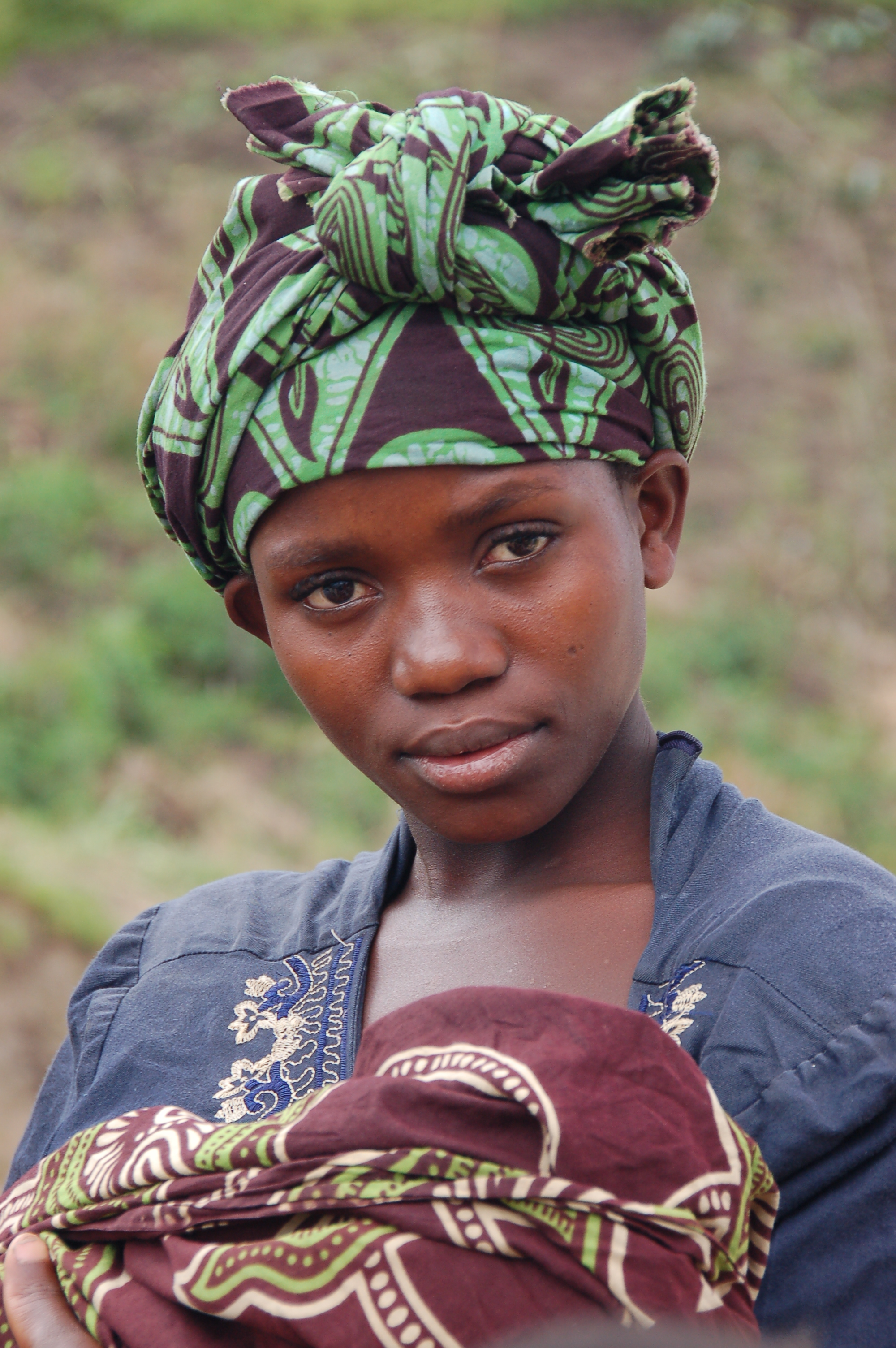 She's beautiful.